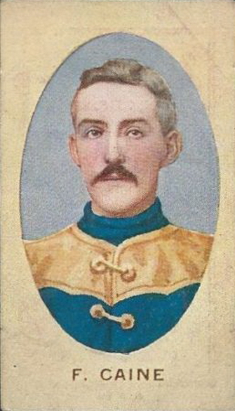 Cigarette card of Frank Caine from the Sniders & Abrahams 1910 series